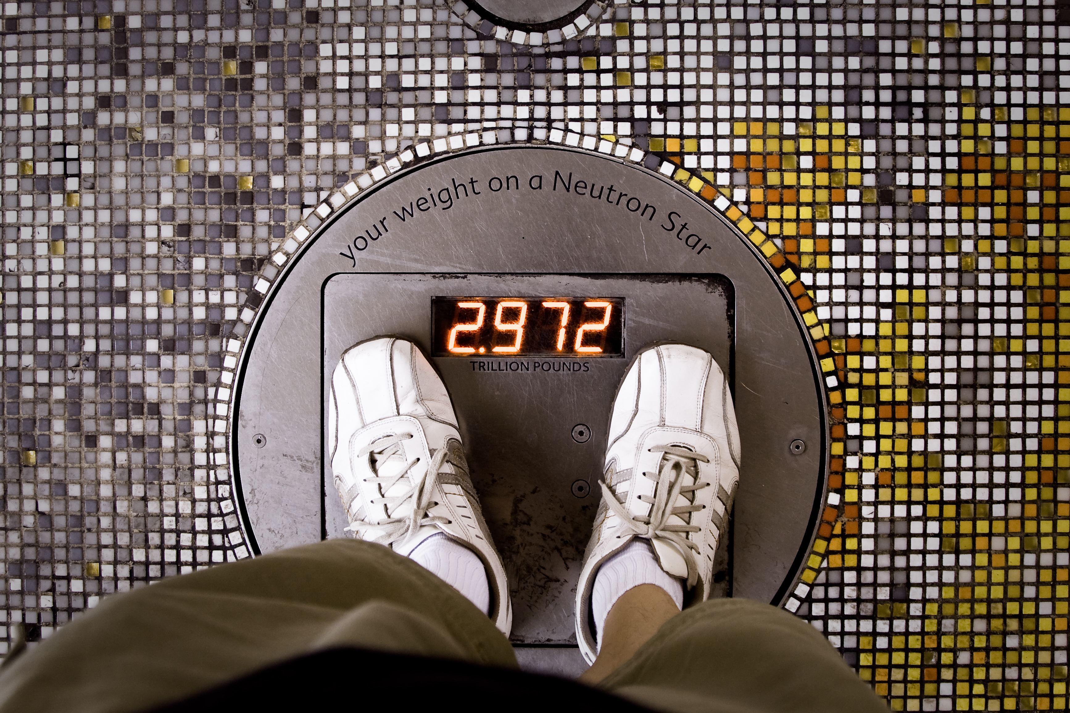 I've been eating too much lately.... actually it's been going on for a year now.... I need to lay off those midnight trips to the fridge.... oh wait we have cake there today though... maybe I'll start tomorrow.... XD Taken at New York City's American Museum of Natural History